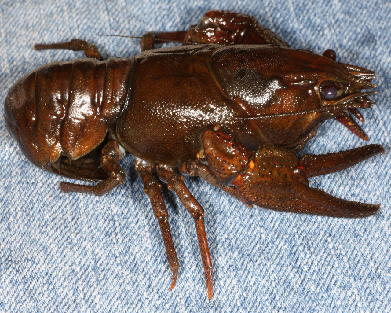 Noble crayfish Astacus astacus habitus